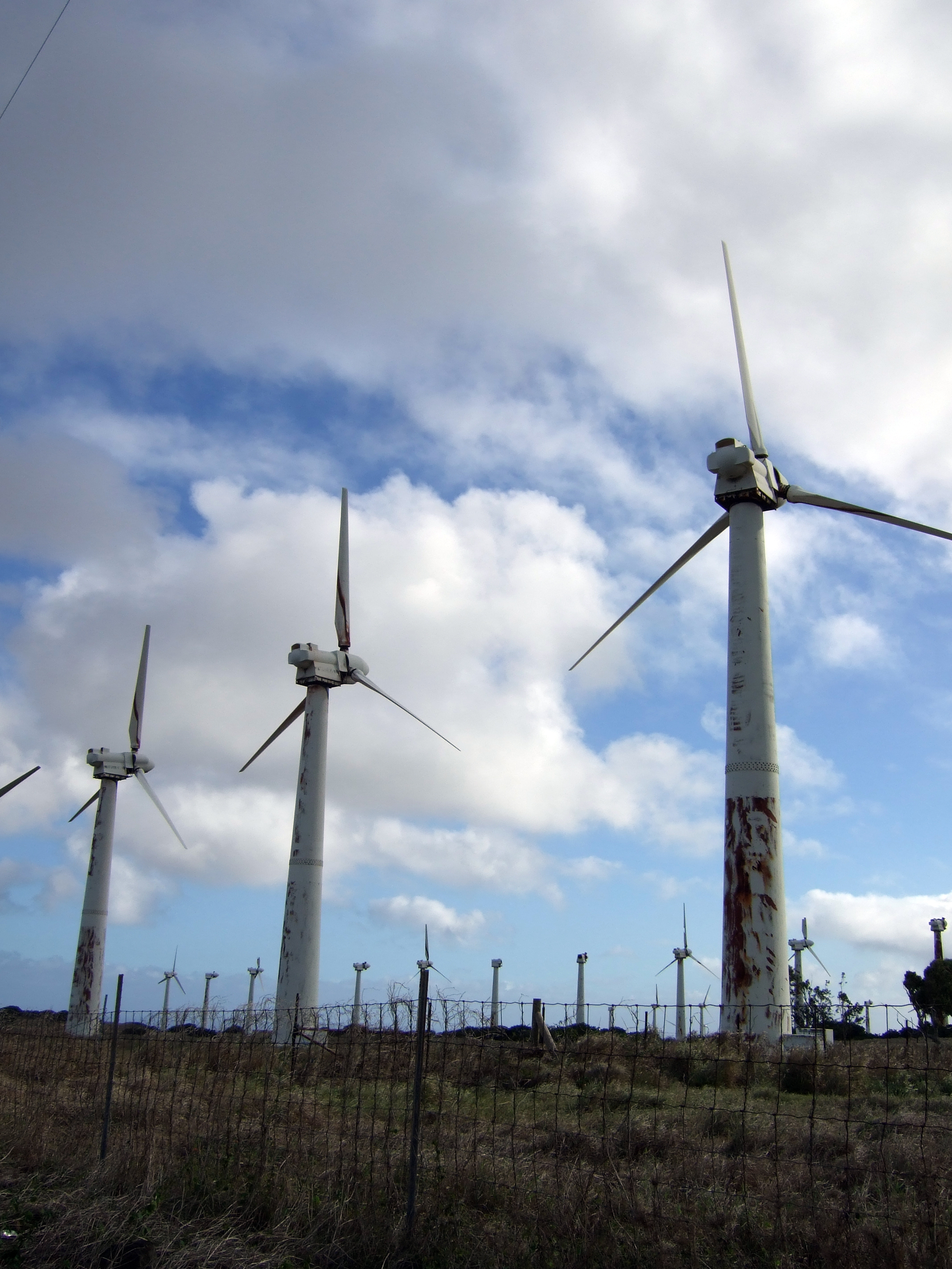 Mitsubishi 250 kW wind turbines of the Kama'oa Wind Farm in Ka Lae (a.k.a. South Point), Big Island of Hawaii. The wind farm came online in 1987, was decomissioned in 2006, and the nearby Pakini Nui wind farm replaced it with 14 larger GE Energy 1.5 MW wind turbines in 2007.